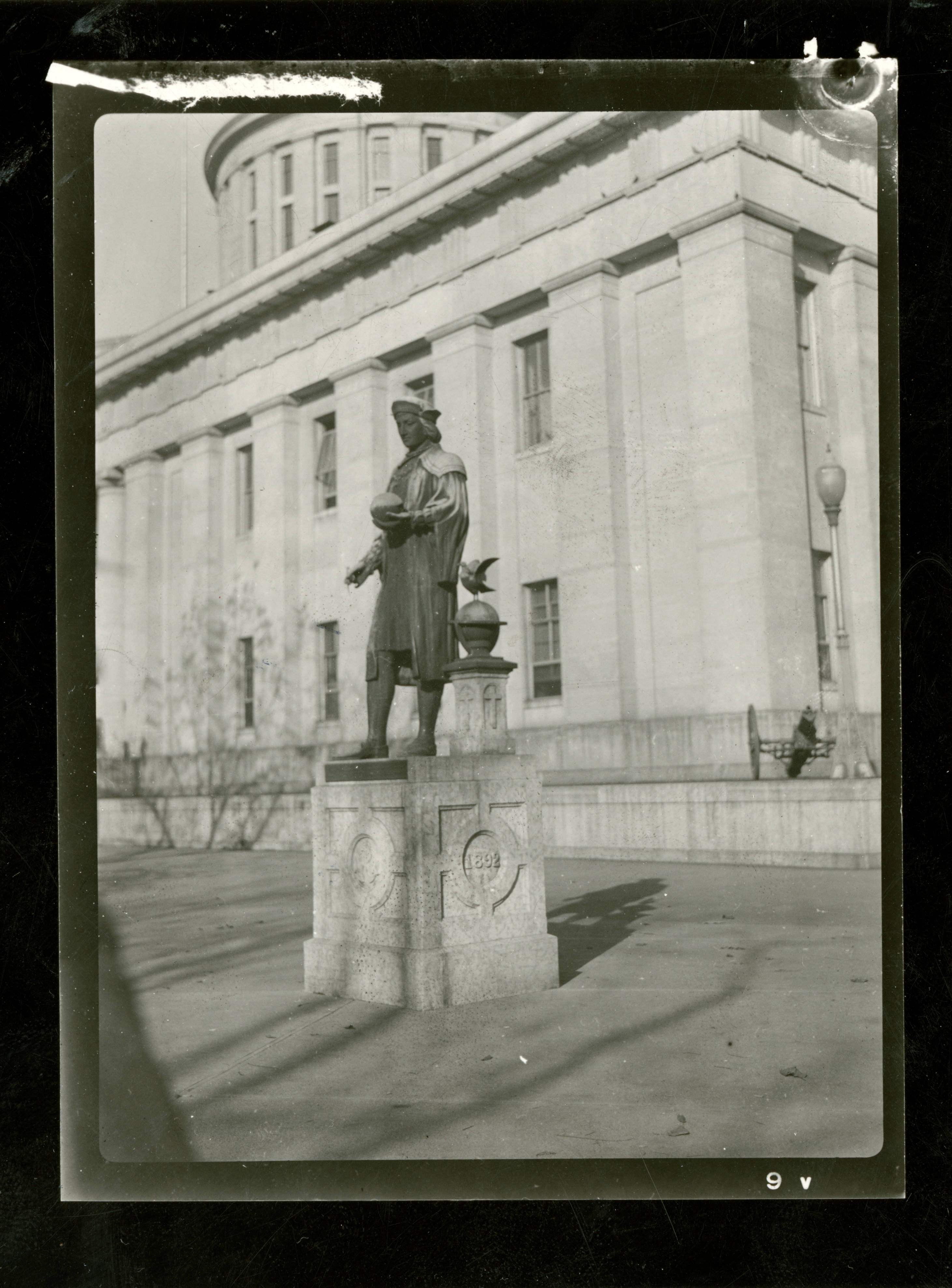 "Christopher Columbus statue is located at the southwest corner of the Ohio State Capitol, which can be seen in the background of the photograph. The statue was originally placed on the grounds of the Pontifical College Josephenium by the school’s founder, Monsignor Joseph Jenning. When the seminary moved from its eastside location to a larger campus north of the city in 1932, the statue was given to the city and has been on the grounds of the Ohio Statehouse ever since. Made by the W.H. Mullins Company in Salem, Ohio, the hollow statue is made of hammered copper plates attached by rivets. The date 1882 can be seen on the base, in the photograph. A new base, similar in appearance, but larger and grander, was made in 1992, in celebration of the 500th anniversary of Columbus’ voyage, as well as renaming the site where it stands Christopher Columbus Discovery Plaza."